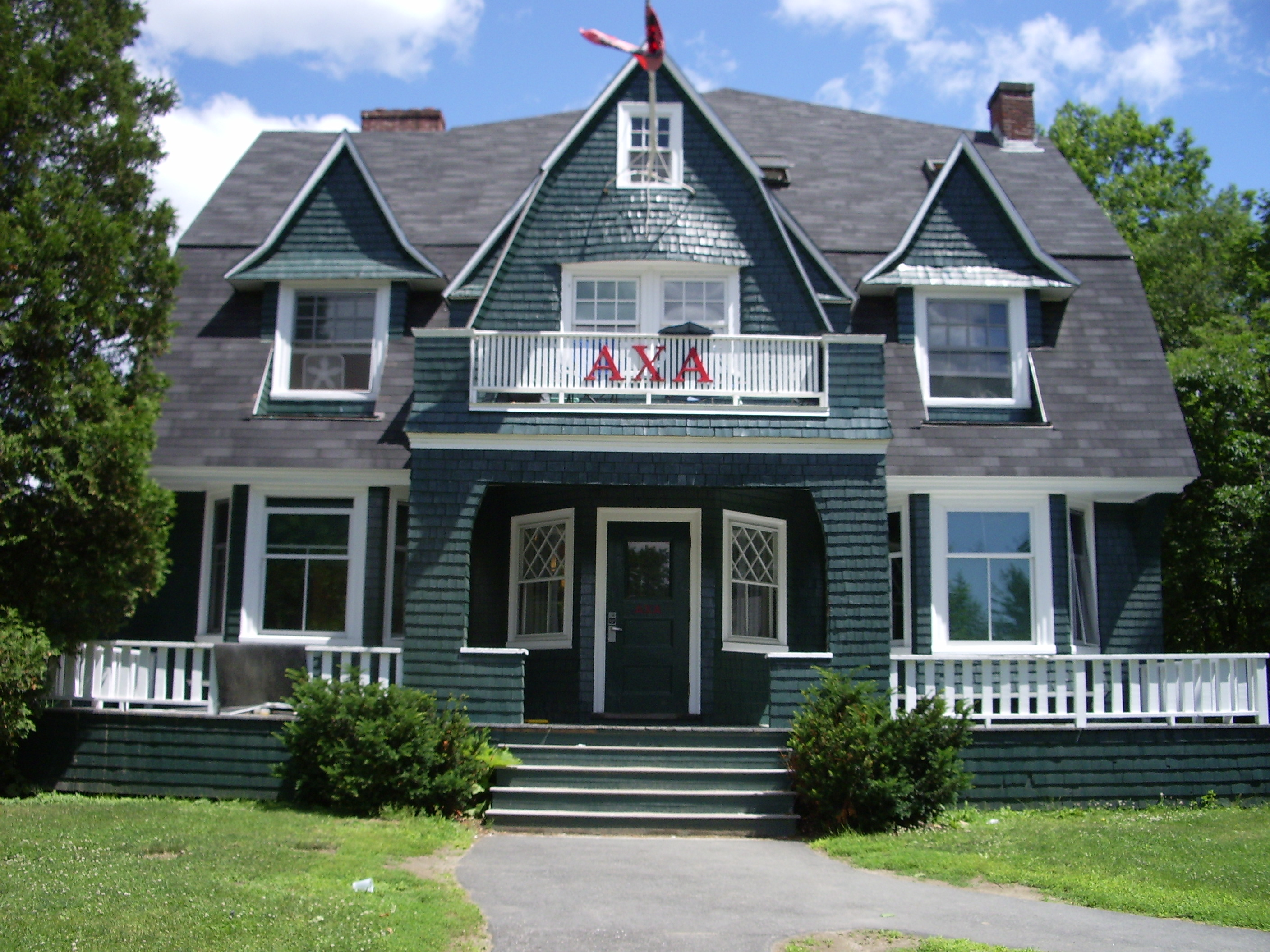 Photograph of Alpha Chi Alpha at the campus of Dartmouth College in Hanover, New Hampshire.